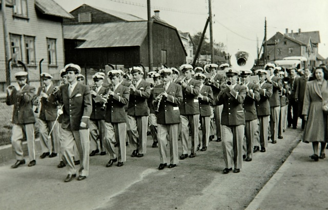 The brass band Sverre Sigurdson from Sandnes, Norway, with its conductor Finn Audun Oftedal, in their new uniforms.